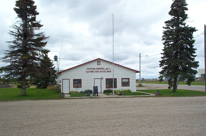 Clifford, North Dakota. From .